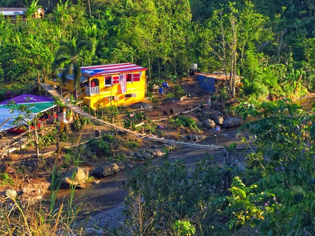 In need of and built a foot bridge to access their home